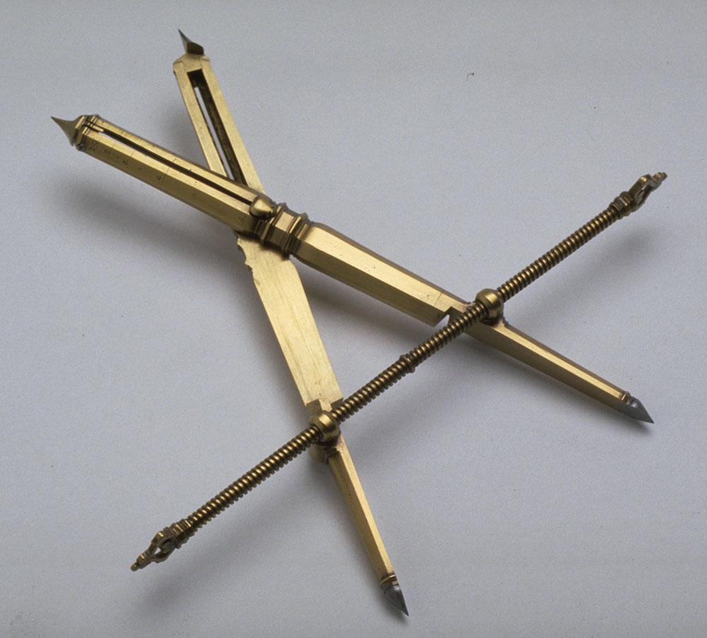 AuthorUnknownDescription